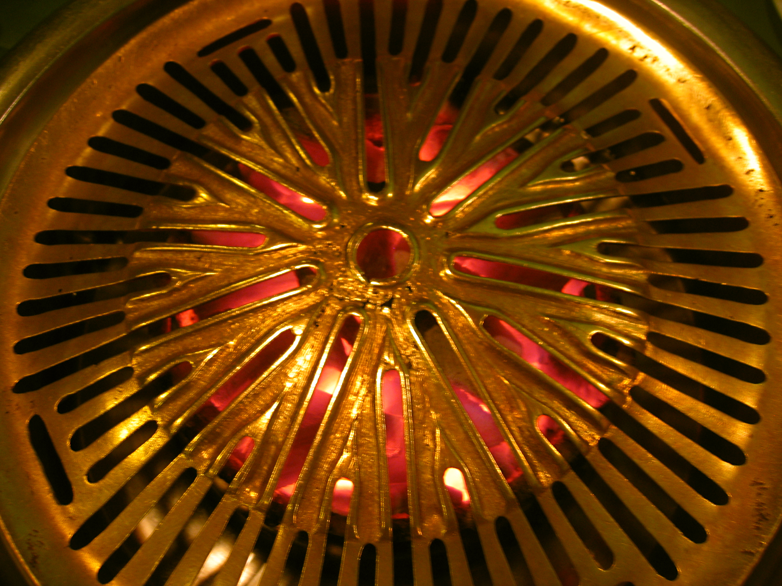 Korean Barbeque in-table grill heating up with coals underneath.